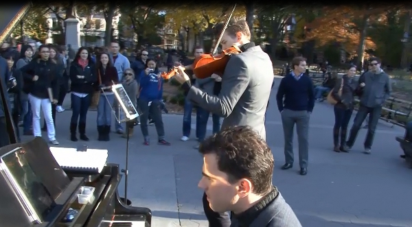 Ron Regev and Filip Pogady playing in the first concert played entirely with the Tonara iPad application